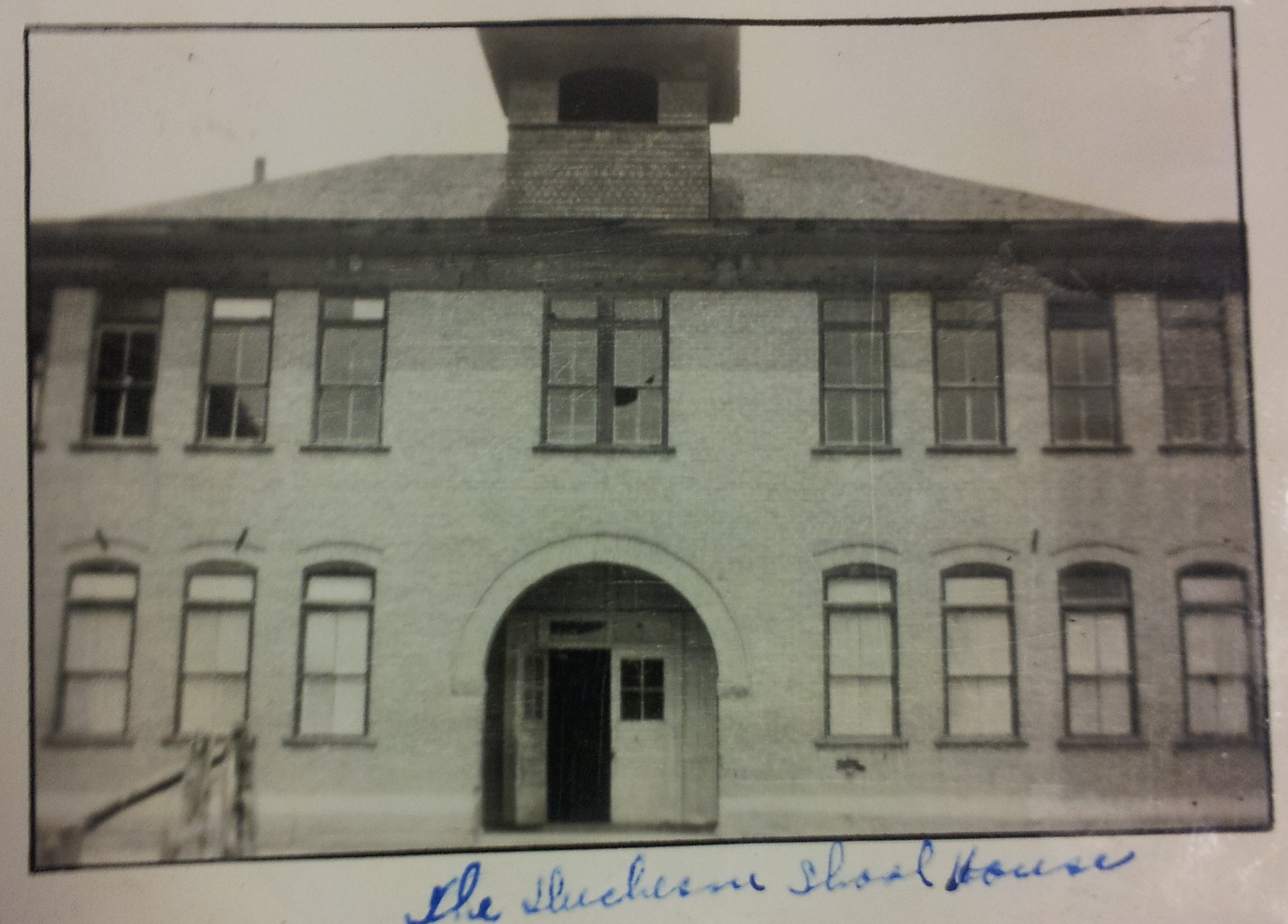 Duchesne Utah Public School built in 1907-08. Photo taken circa 1930